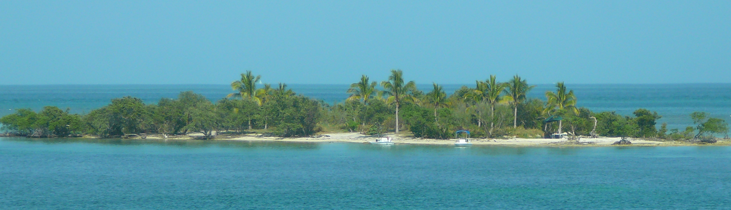 Digital photo taken by Marc Averette. Money Key as seen from the Seven Mile Bridge in the Florida Keys 6/23/2008